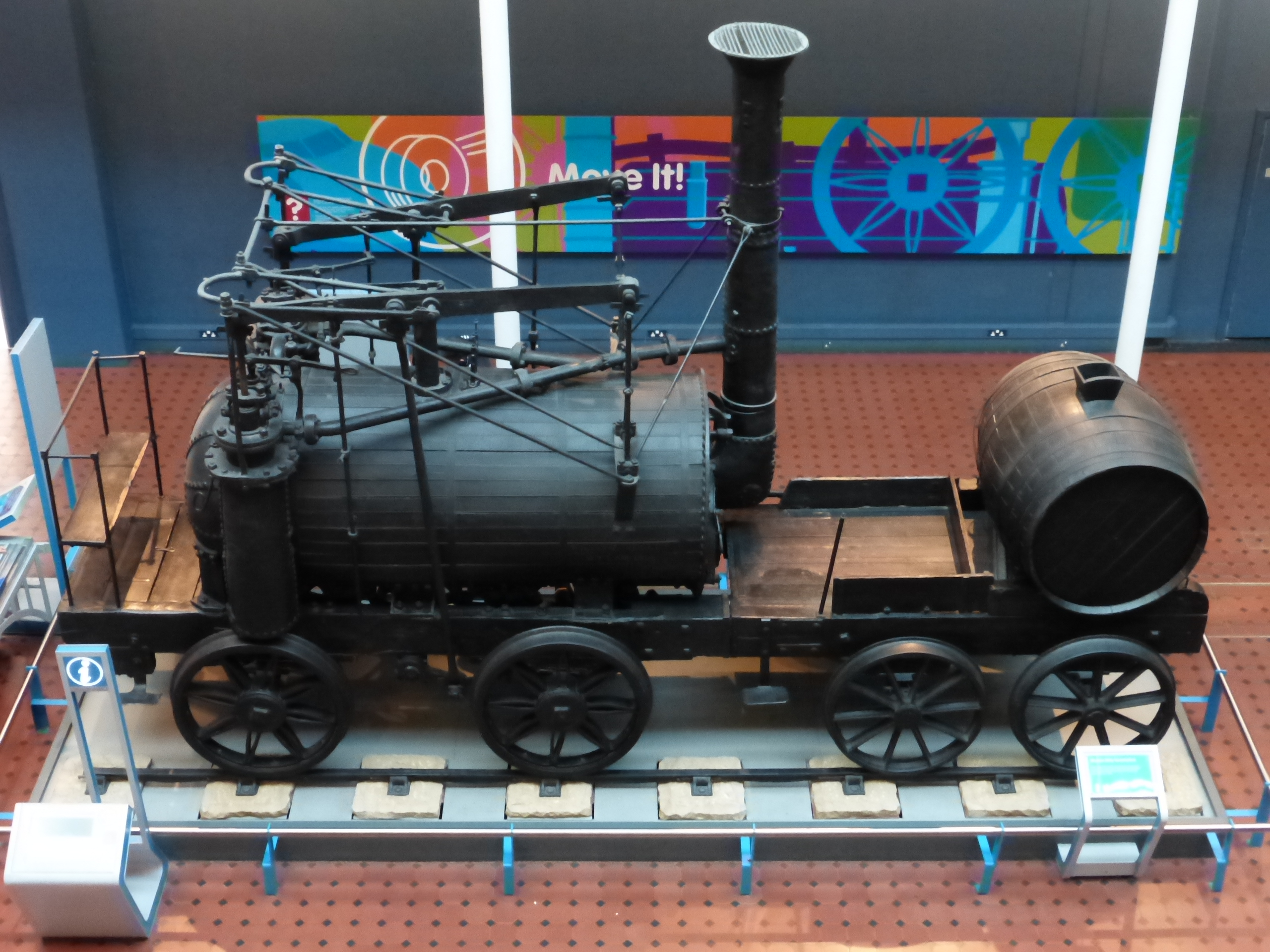 Built c.1815 by William Hedley and Timothy Hackworth for use on the Wylam Waggonway between the village of Wylam and Newcastle, this is the second oldest locomotive in the world. The oldest is Puffing Billy at the Science Museum, London. Until 2008 it was believed that Wylam Dilly was the oldest but research has shown it to incorporate improvements not present in Puffing Billy.